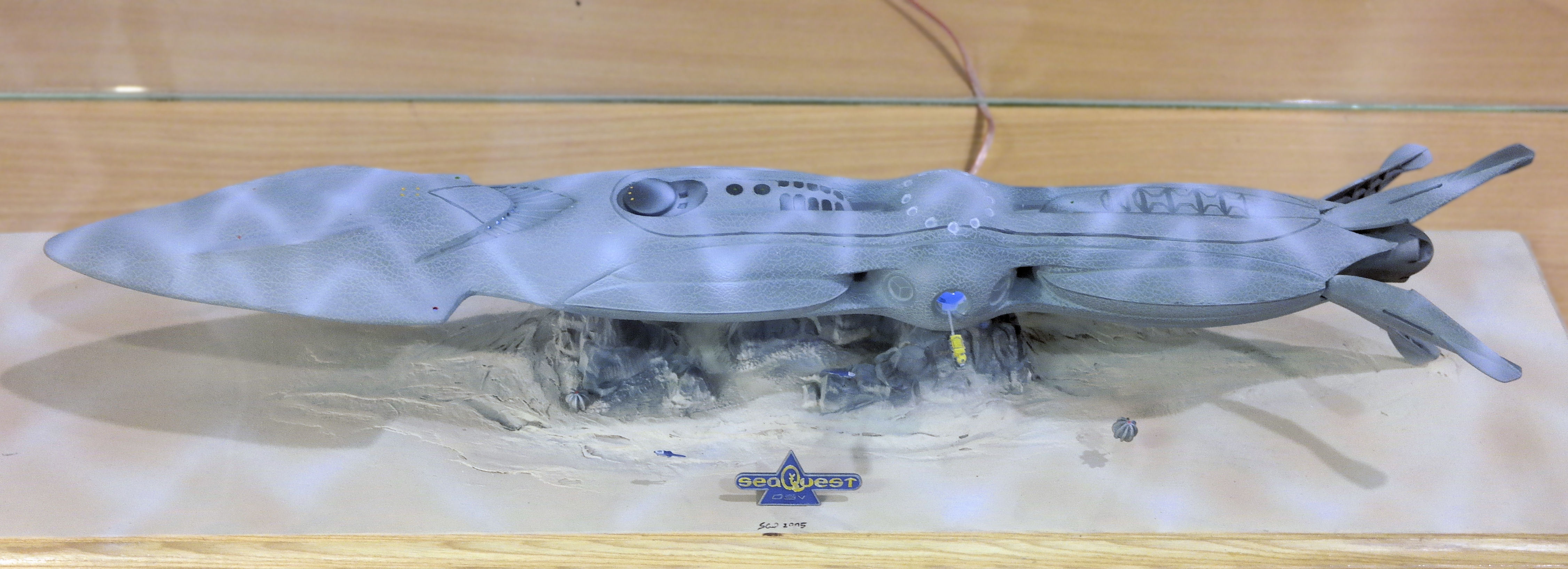 SeaQuest DSV submarine model, Pyrkon, Poznań 2015